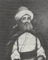 Emir Fakhr-al-Din II. An Artistic portraite from soggetto di Libleau, 1st appeared in 1787 in Giovanni Mariti's book "Istoria di Faccardino Grand-Emir dei Drusi"